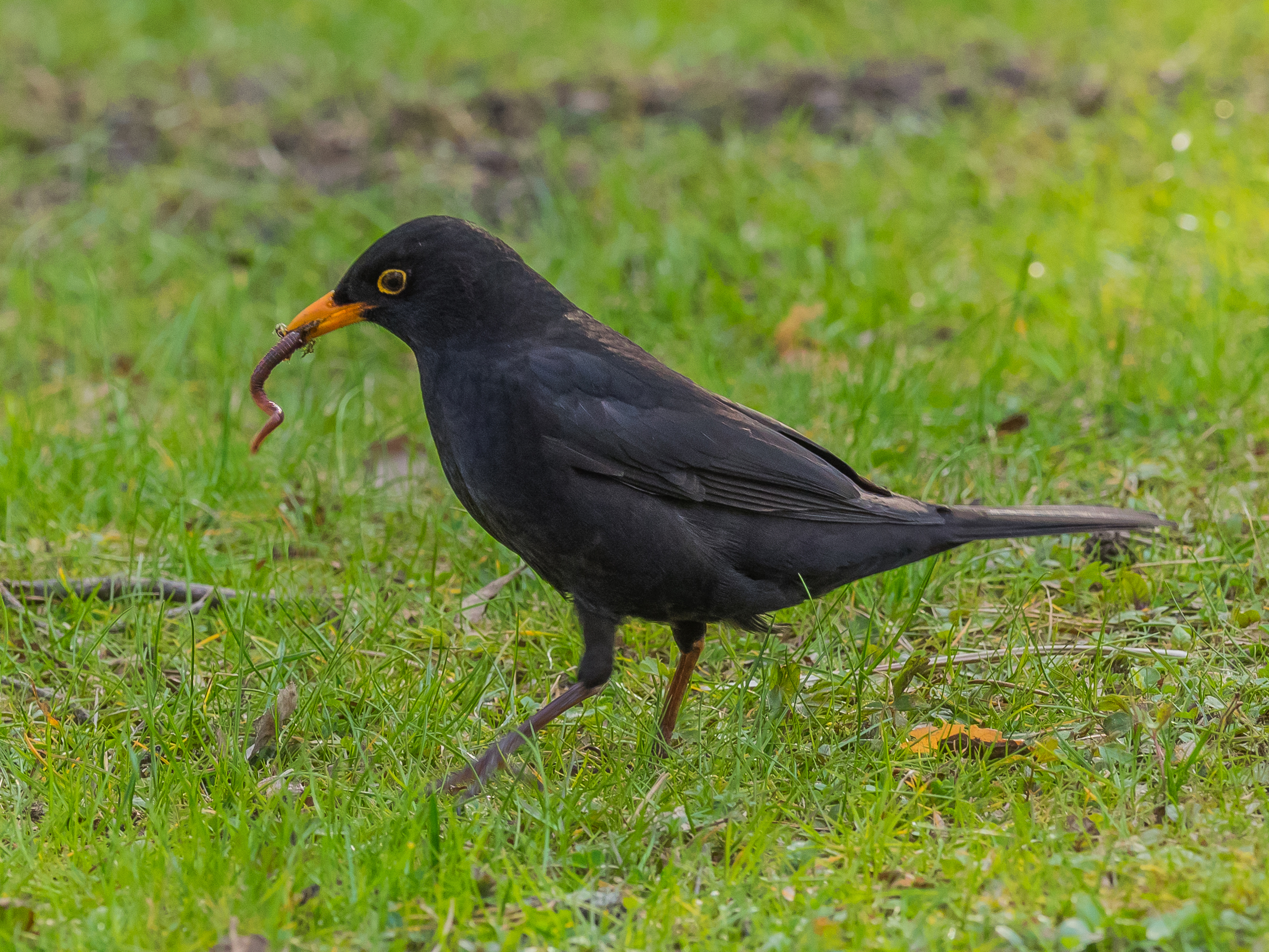 Koltrast, Blackbird, Turdus merula around Vaxholm, Sweden